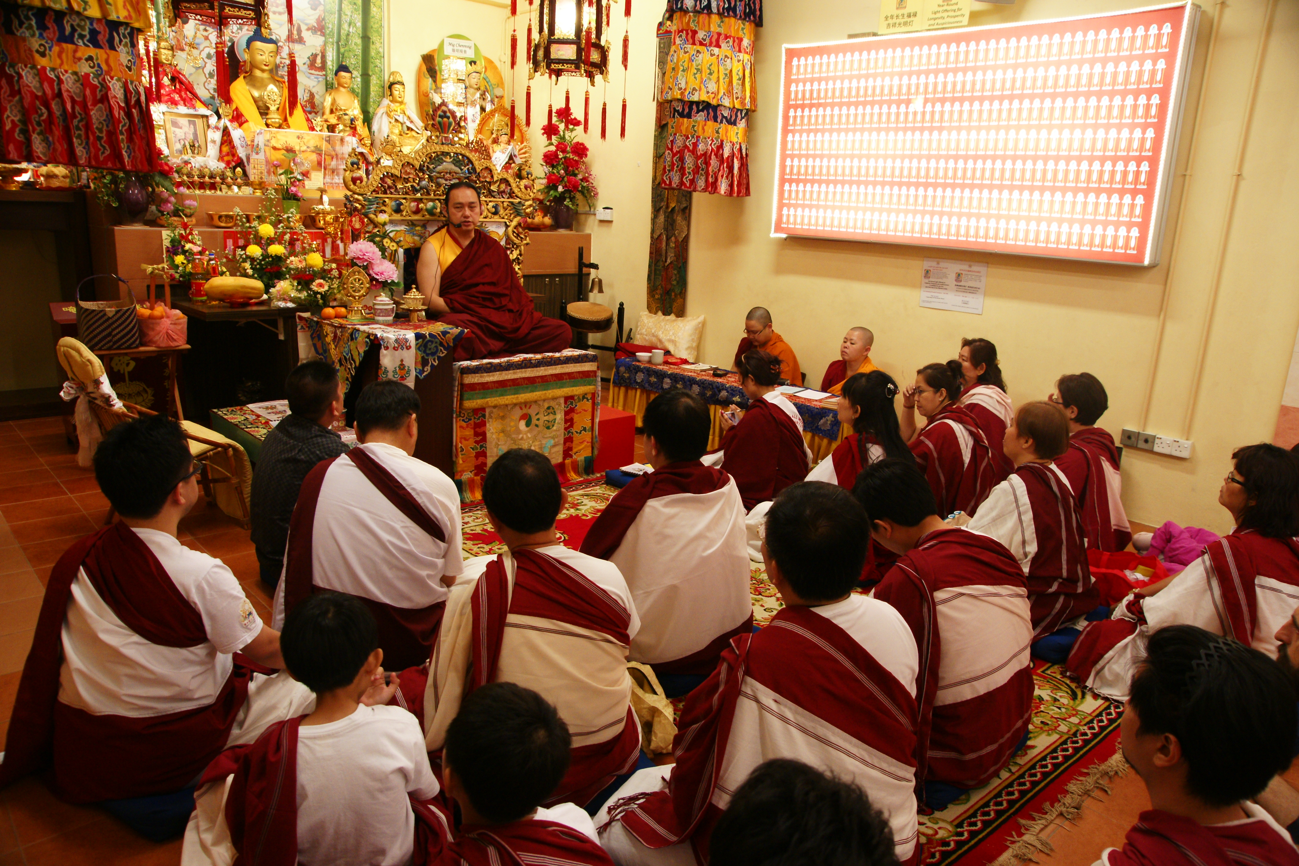 Dharma teaching at Thekchen Choling Malaysia